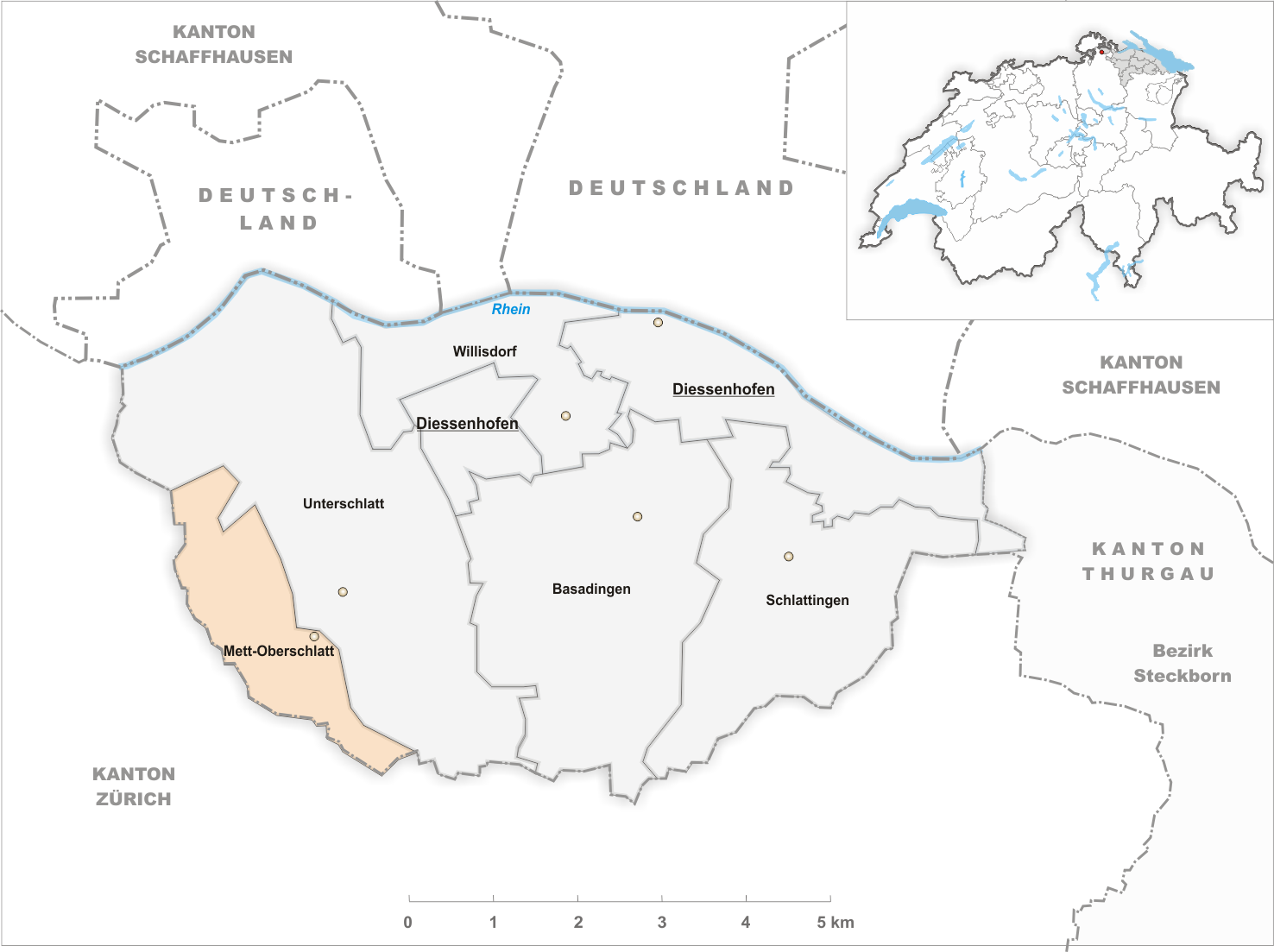 Municipality Mett-Oberschlatt